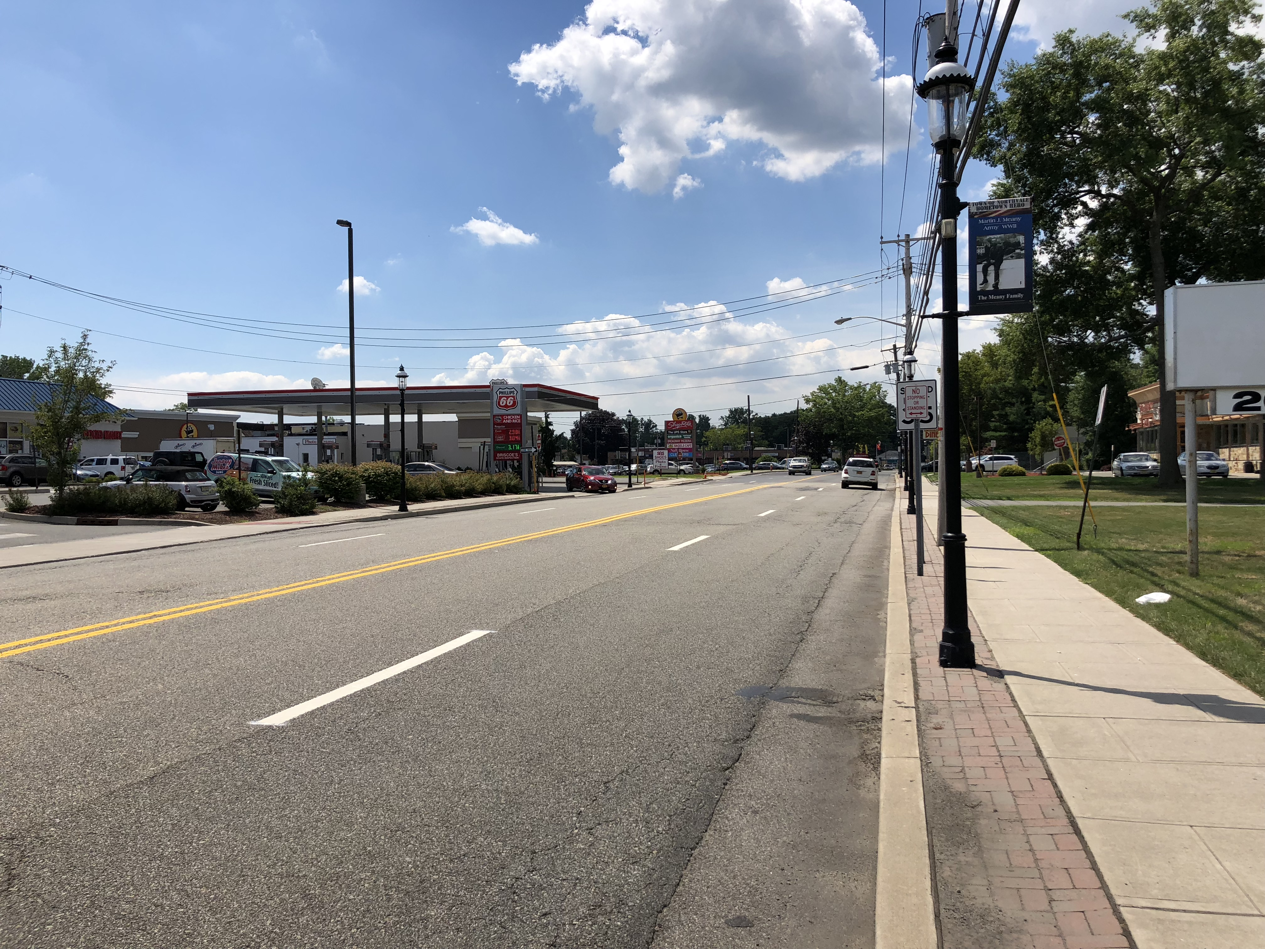 View south along Bergen County Route 505 (Livingston Street) between Pegasus Avenue and Henmarken Drive in Northvale, Bergen County, New Jersey